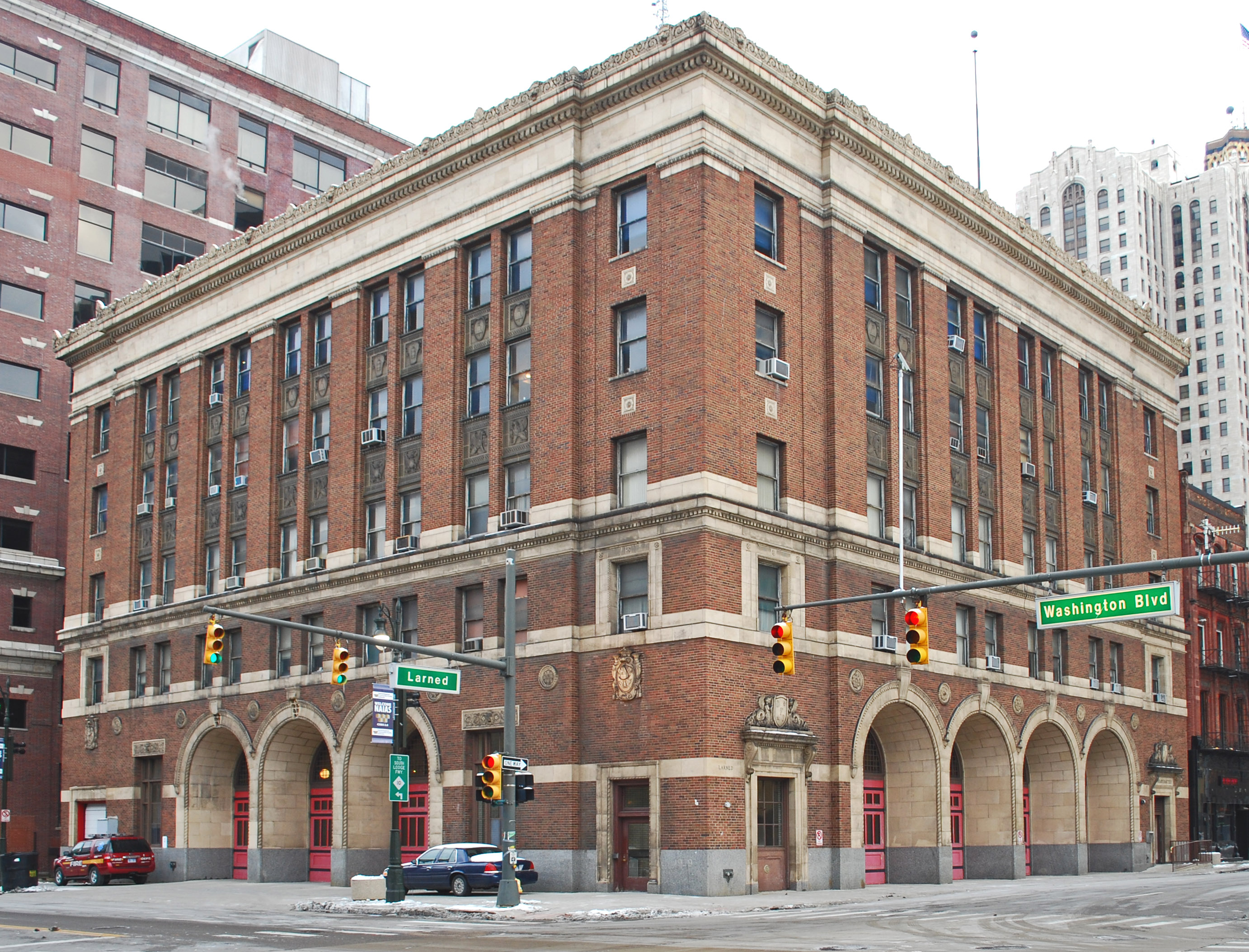 Detroit Fire Department Headquarters — Detroit Financial District - downtown Detroit.